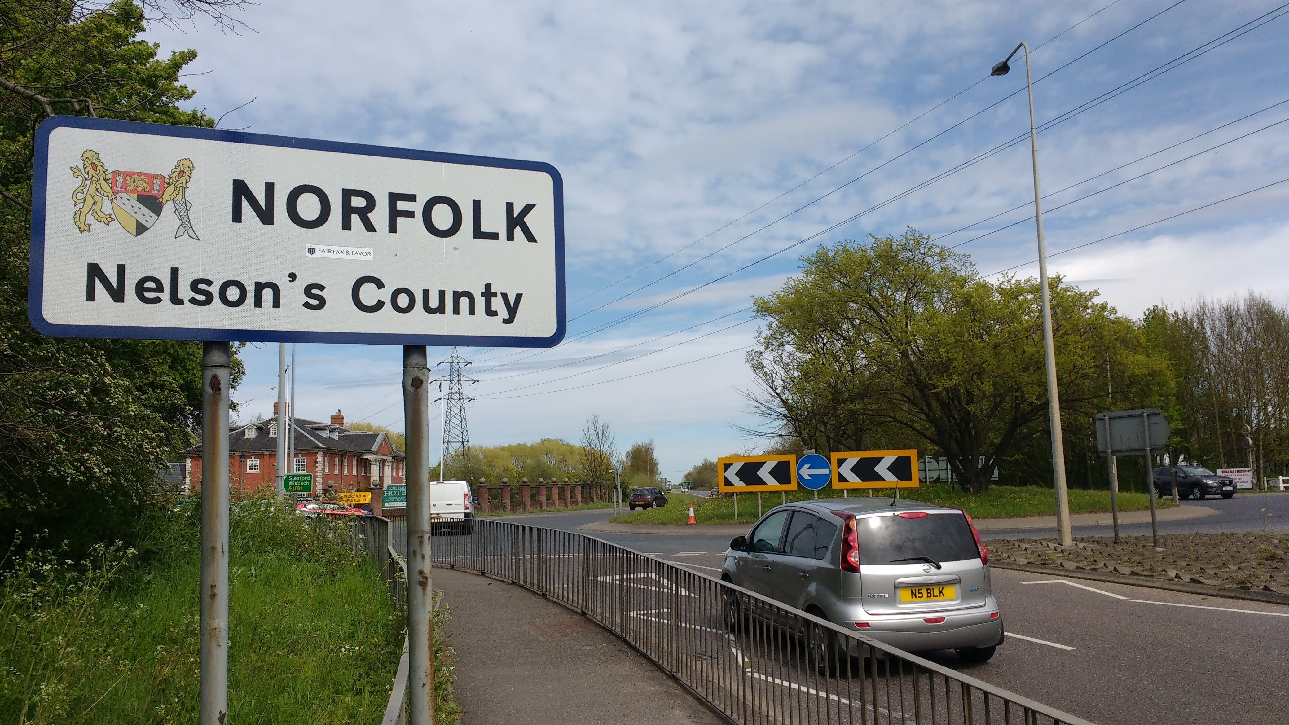 Norfolk